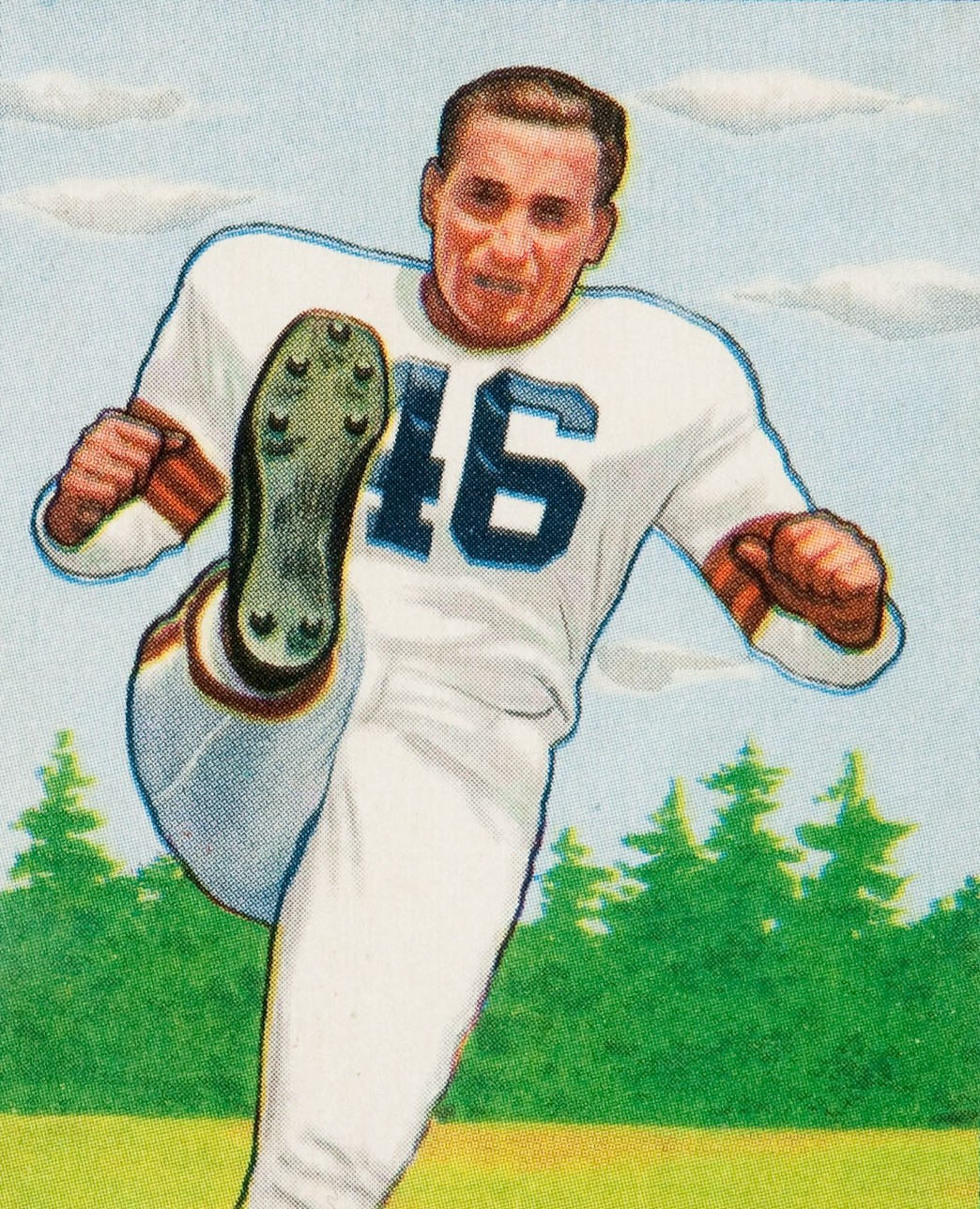 Lou Groza, American football placekicker, on a 1950 Bowman football card